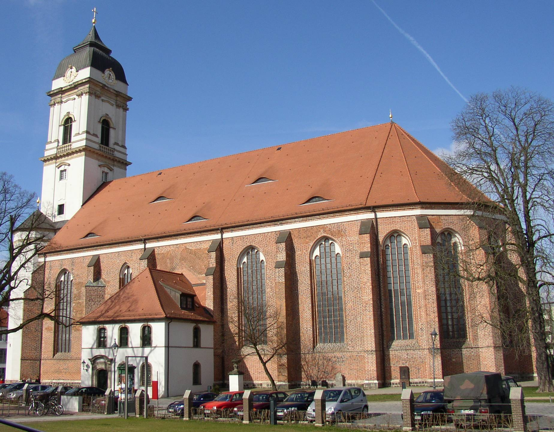 St. Mary's Cathedral in Fürstenwalde in Brandenburg, Germany